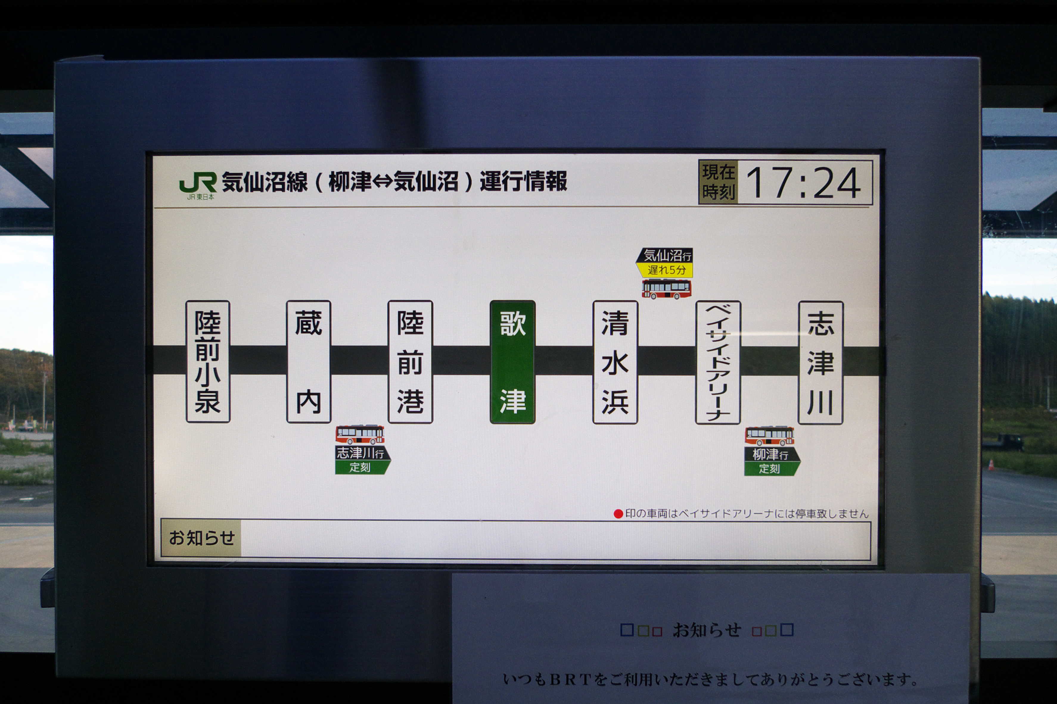 JR East Kesennuma Line BRT operation information board at Utatsu Station